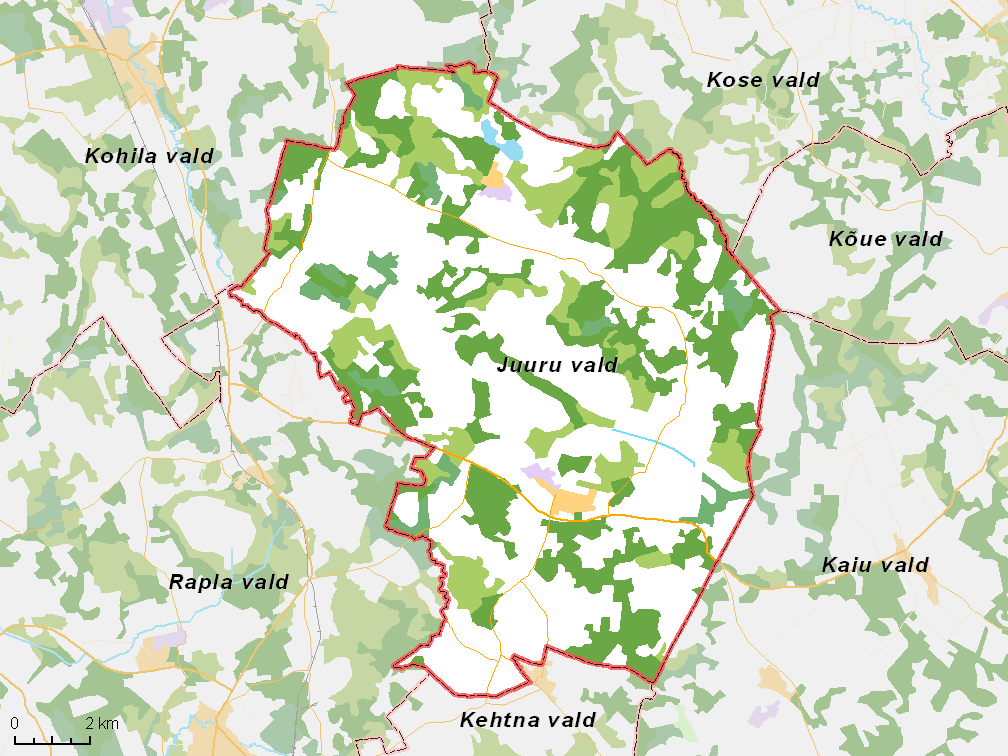 Map of municipality in Estonia